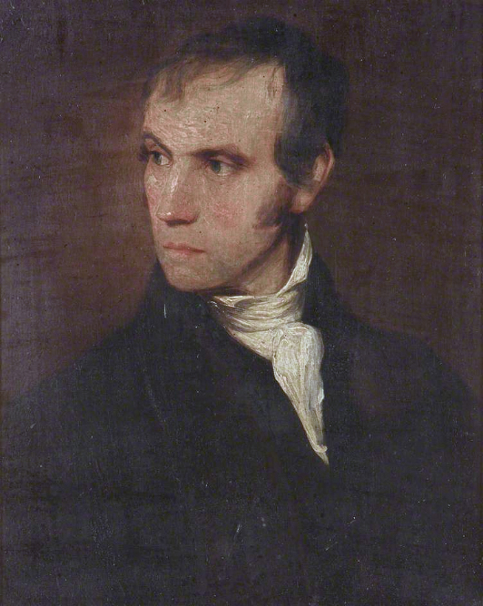 Self portrait oil on panel 39.3 x 34.1 cm